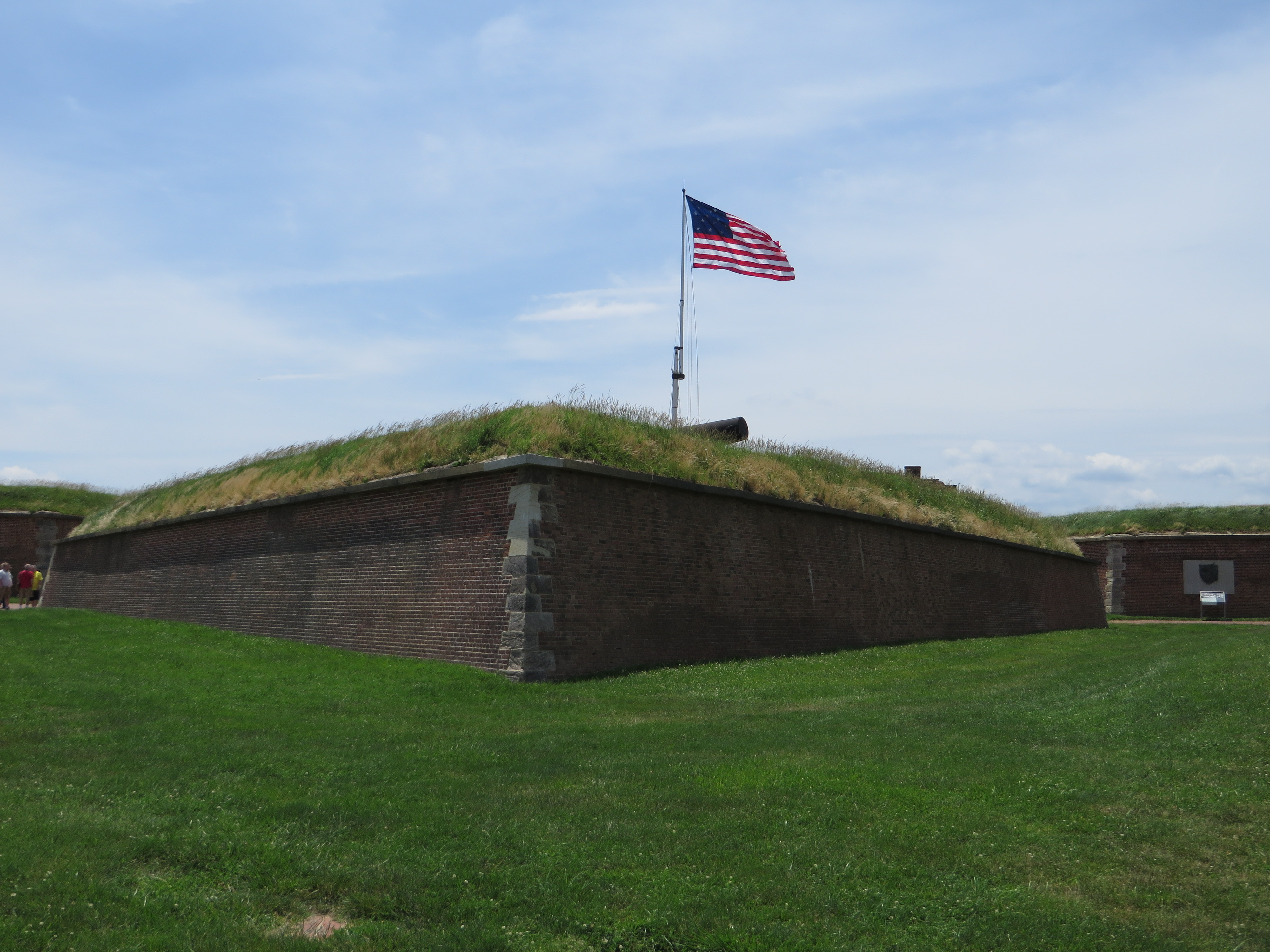 Star-Spangled Banner Flag replica over Fort McHenry, Baltimore, Maryland